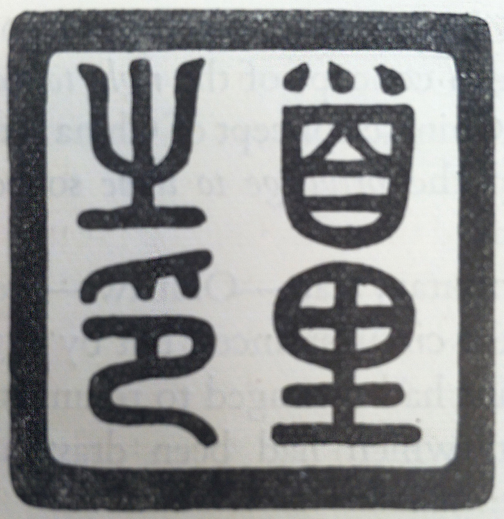 Seal of Shuri, royal seal of the Ryūkyū Kingdom.